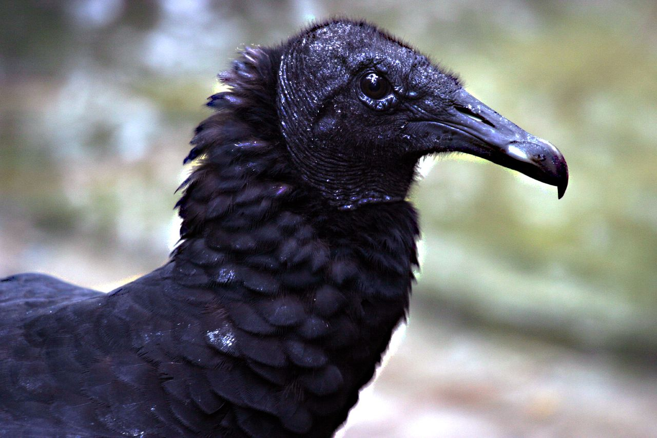 Black Vulture or Coragyps atratus Audubon Guide, Vol 1, page 210 Shot in the Okefenokee Swamp near Waycross, Georgia, with a Canon 10D, 100 - 400mm f5.6 lens.